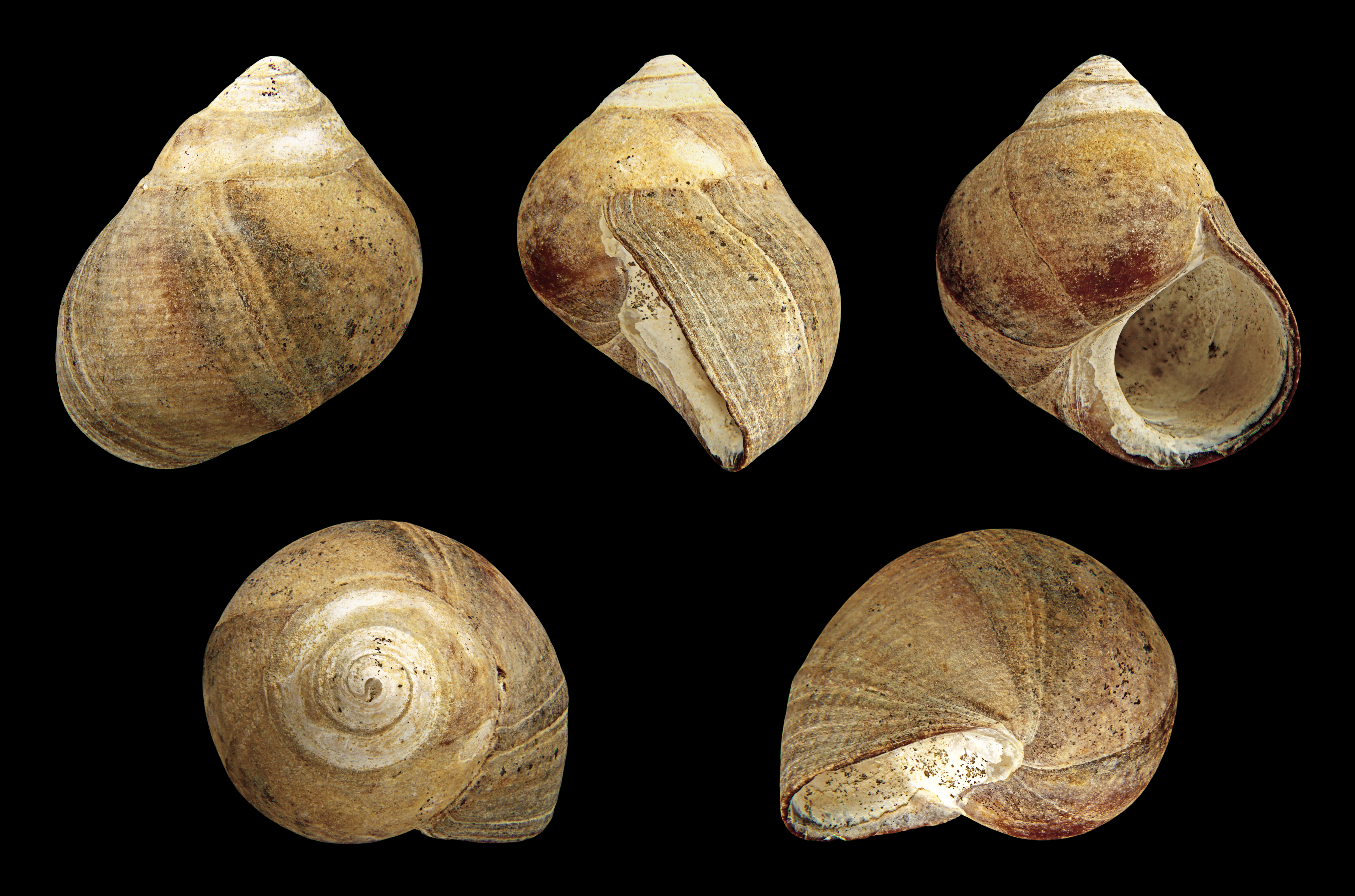 Common Periwinkle; Diameter 1.6 cm; Lillo Formation, Pliocene; Kallo, Belgium; Shell of own collection, therefore not geocoded.